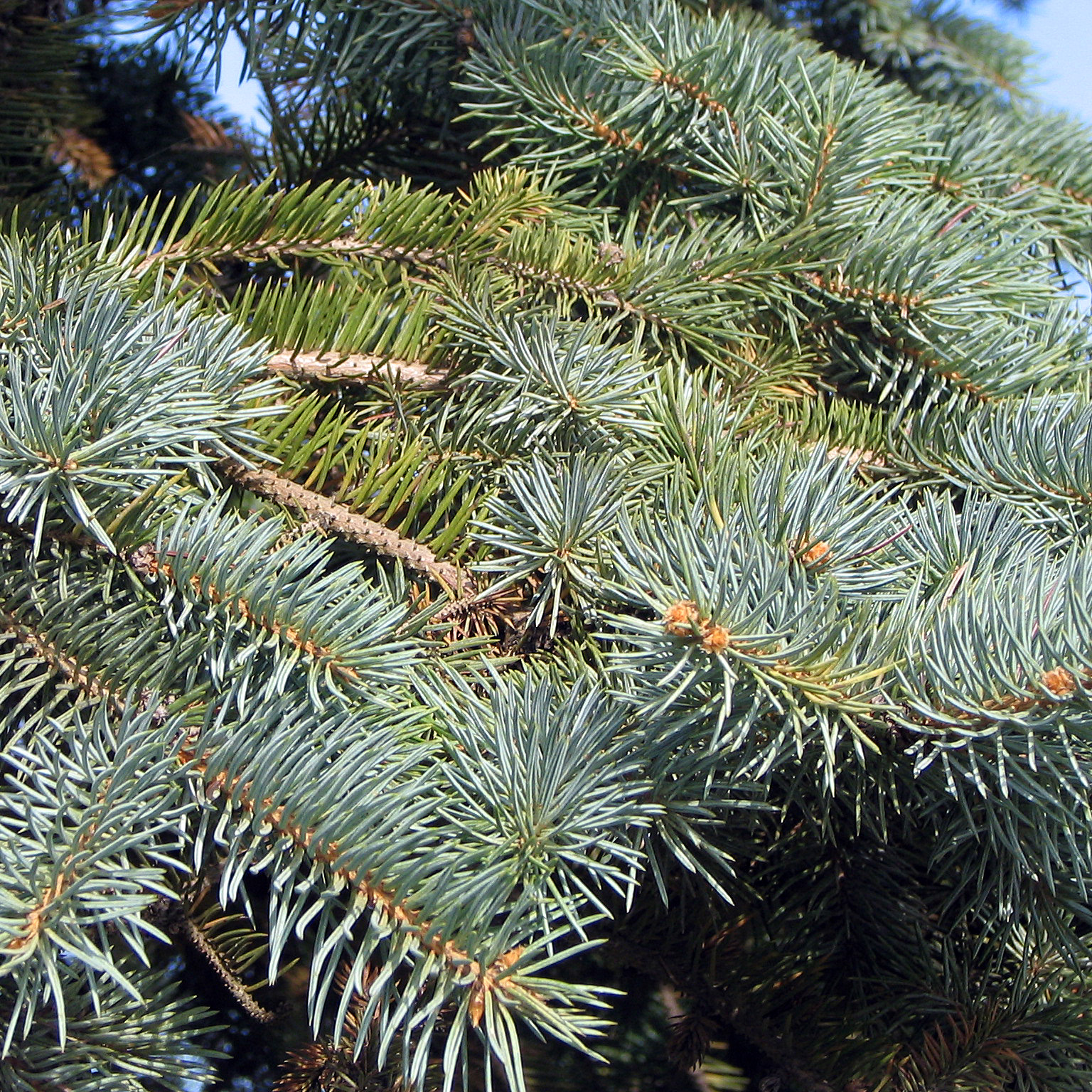 Picea pungens shoots